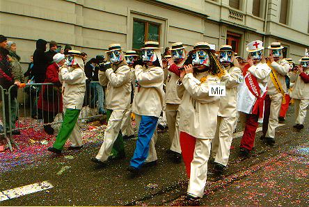 original pipers at the basel fasnacht